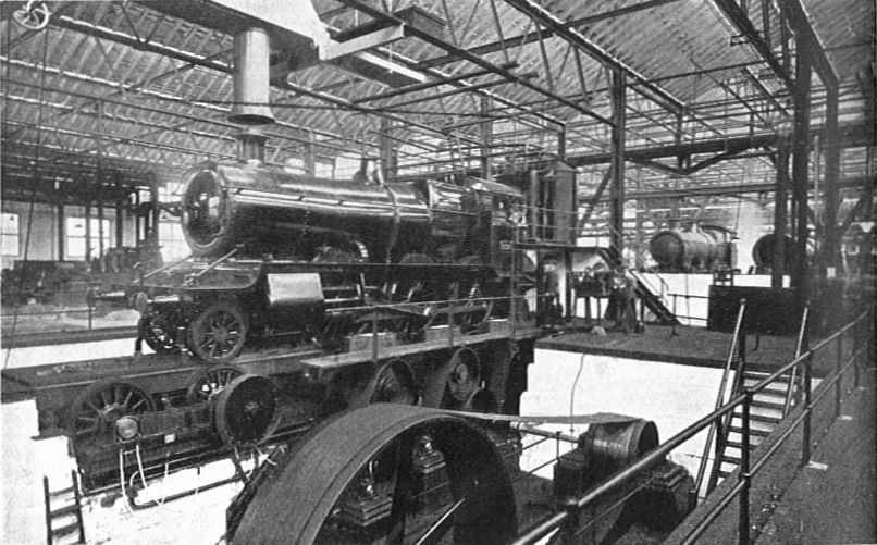 The Locomotive Testing Plant at Swindon, GWR Photo: GWR